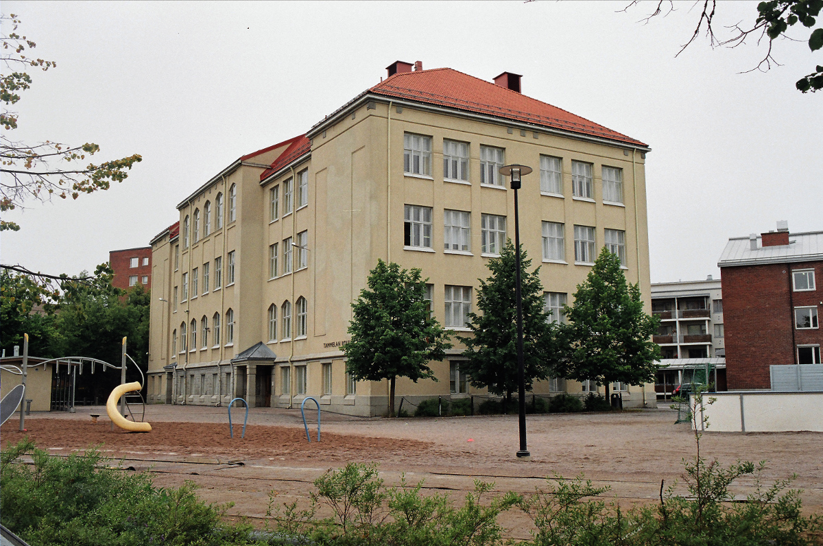 Tammela School (the older/original building), in central Tampere, Finland. Designed by architect Georg Schreck, the building was completed in 1911.